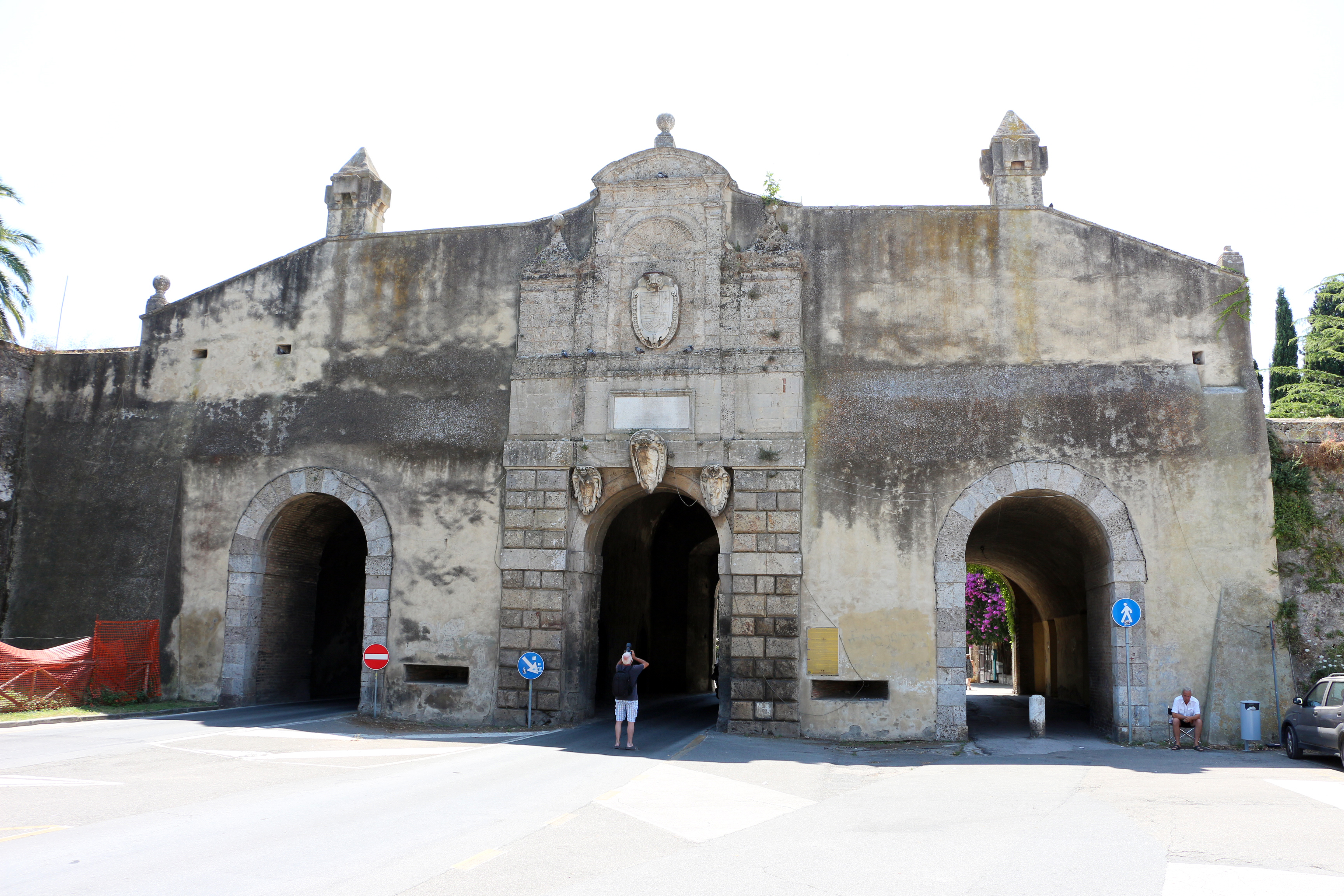 Orbetello